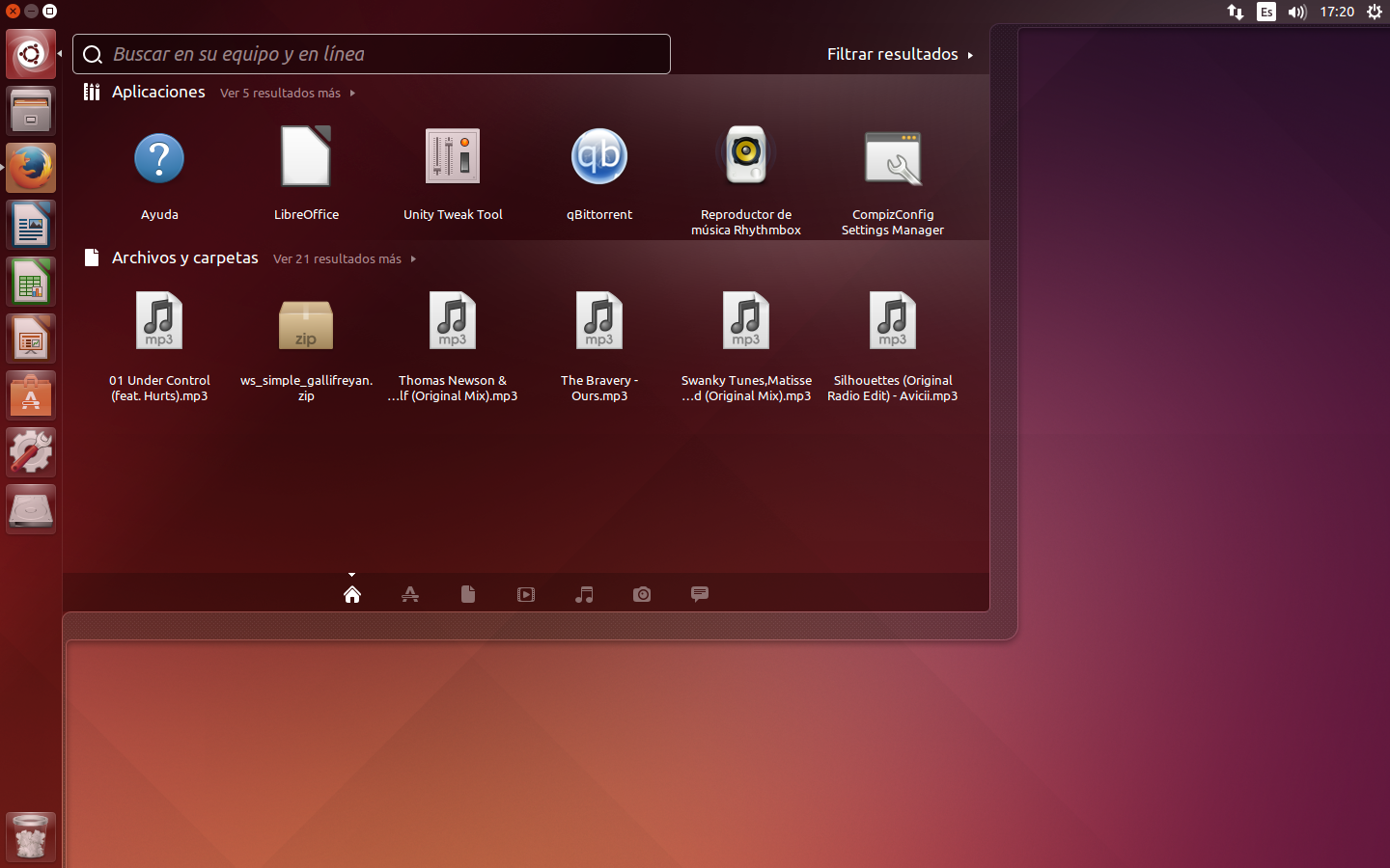 Ubuntu 14.04 Desktop in Spanish.